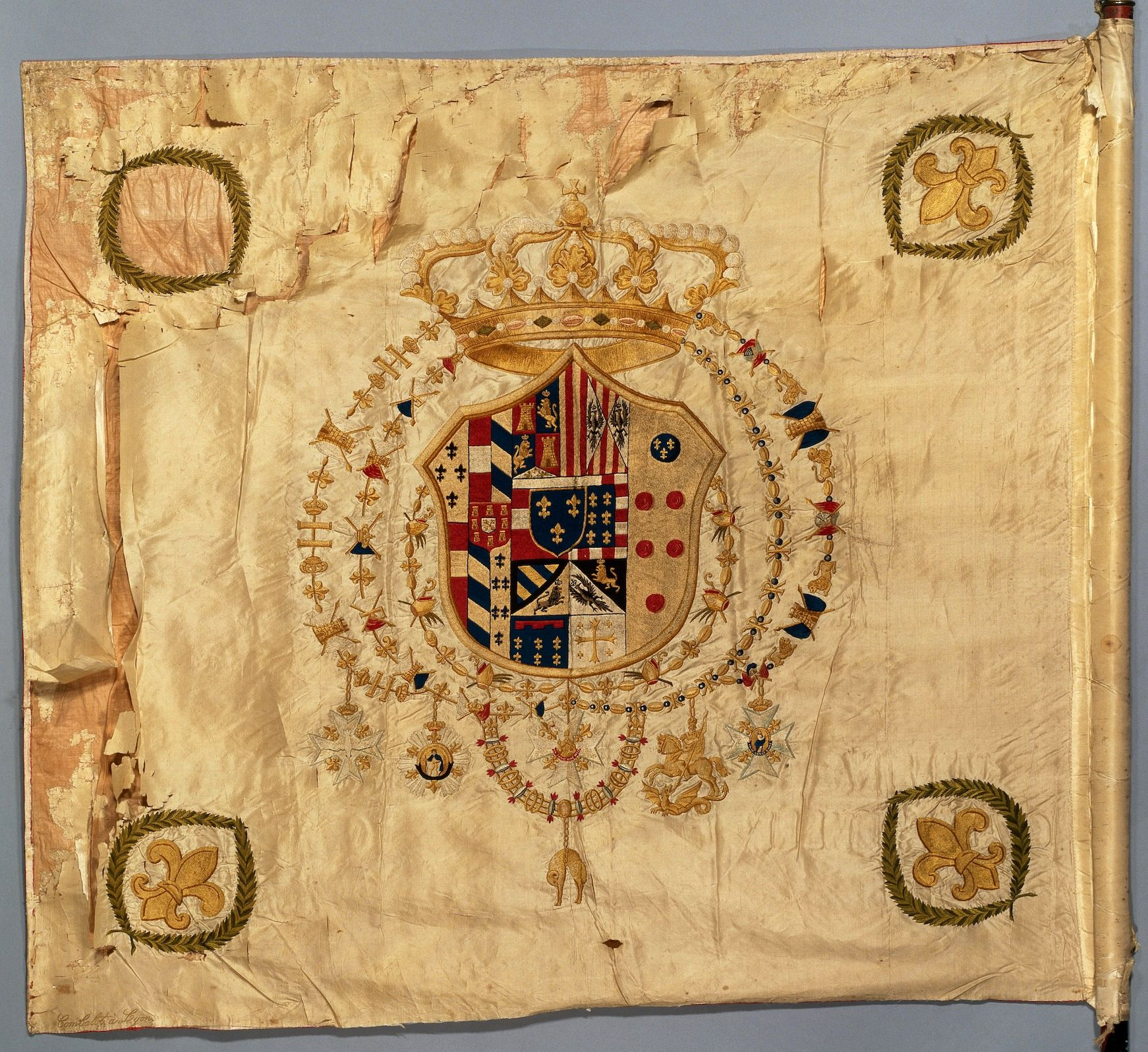 B-side of the ensign of th 4. Swiss Regiment in Naples